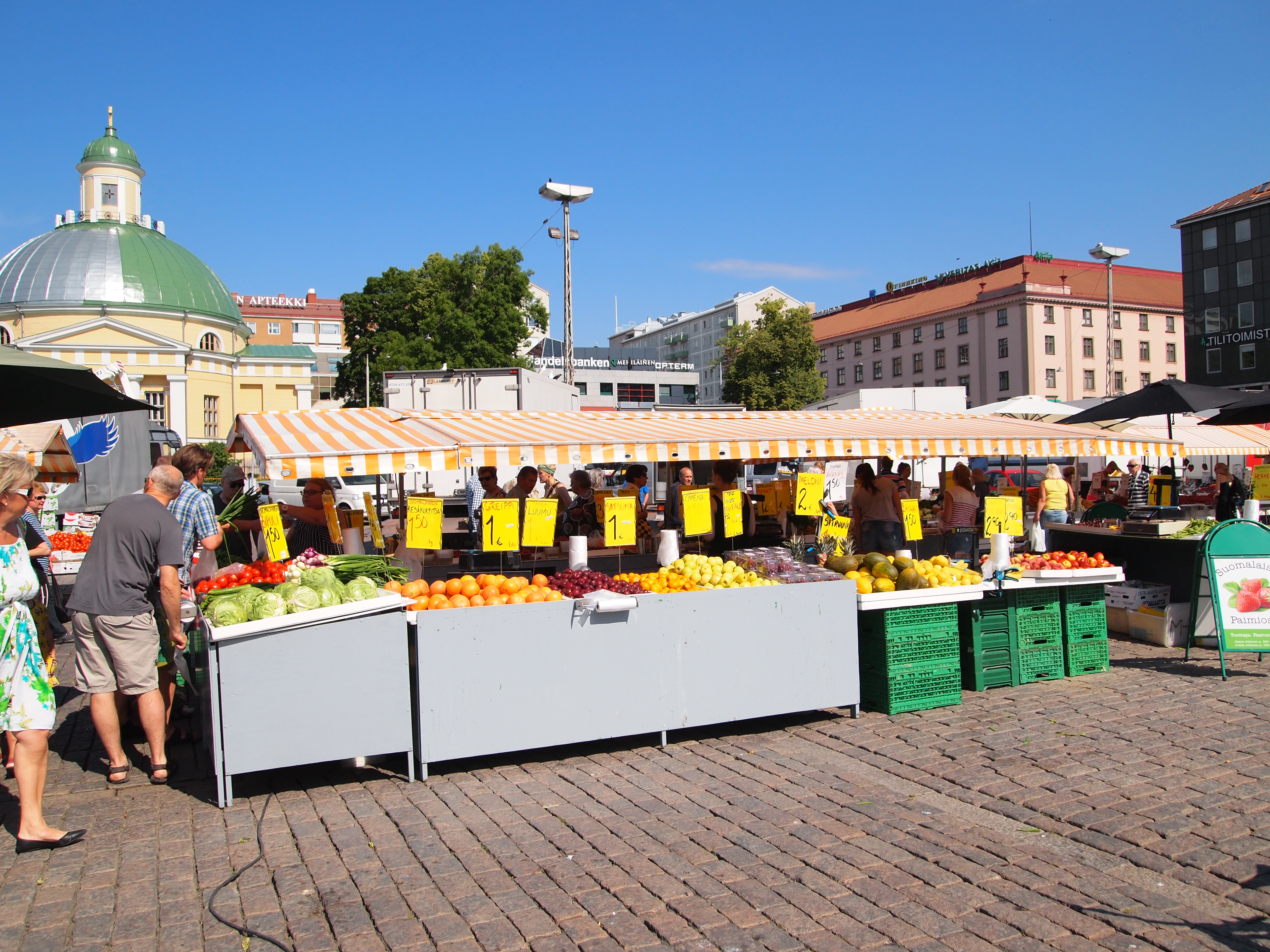 Fruits on sale in Turku Market Square. This photograph was taken with an Olympus E-PL1